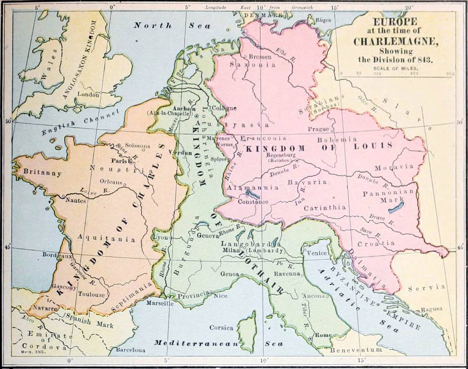 Political map of Europe at the time of Charlemagne